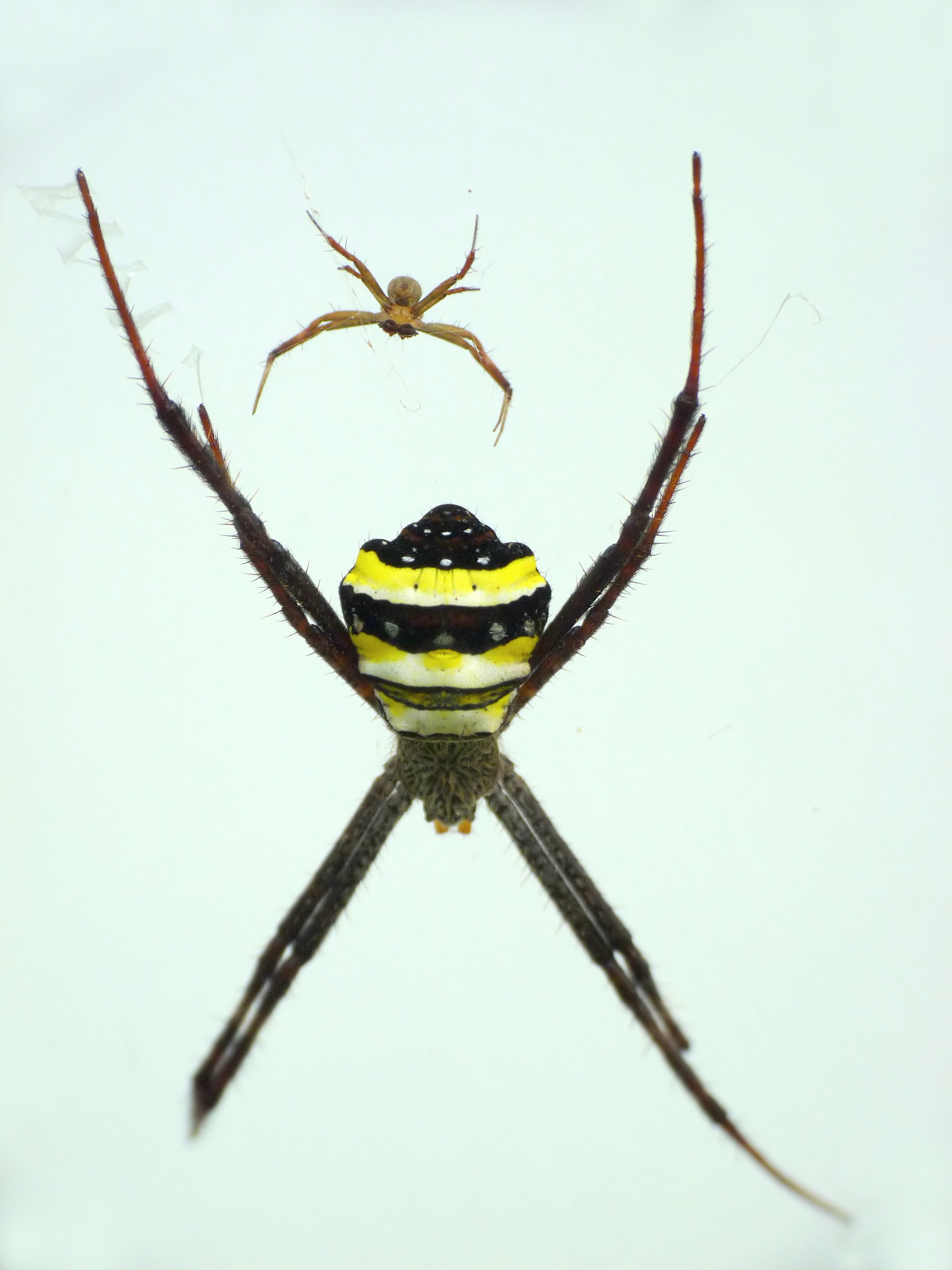 Argiope pulchella is a species of Orb Spider belonging to the family Araneidae. It ranges from India to China and can be found on Java. It builds a web with a zig-zag stabilimentum. This species has a pentagonal opisthosoma (abdomen).